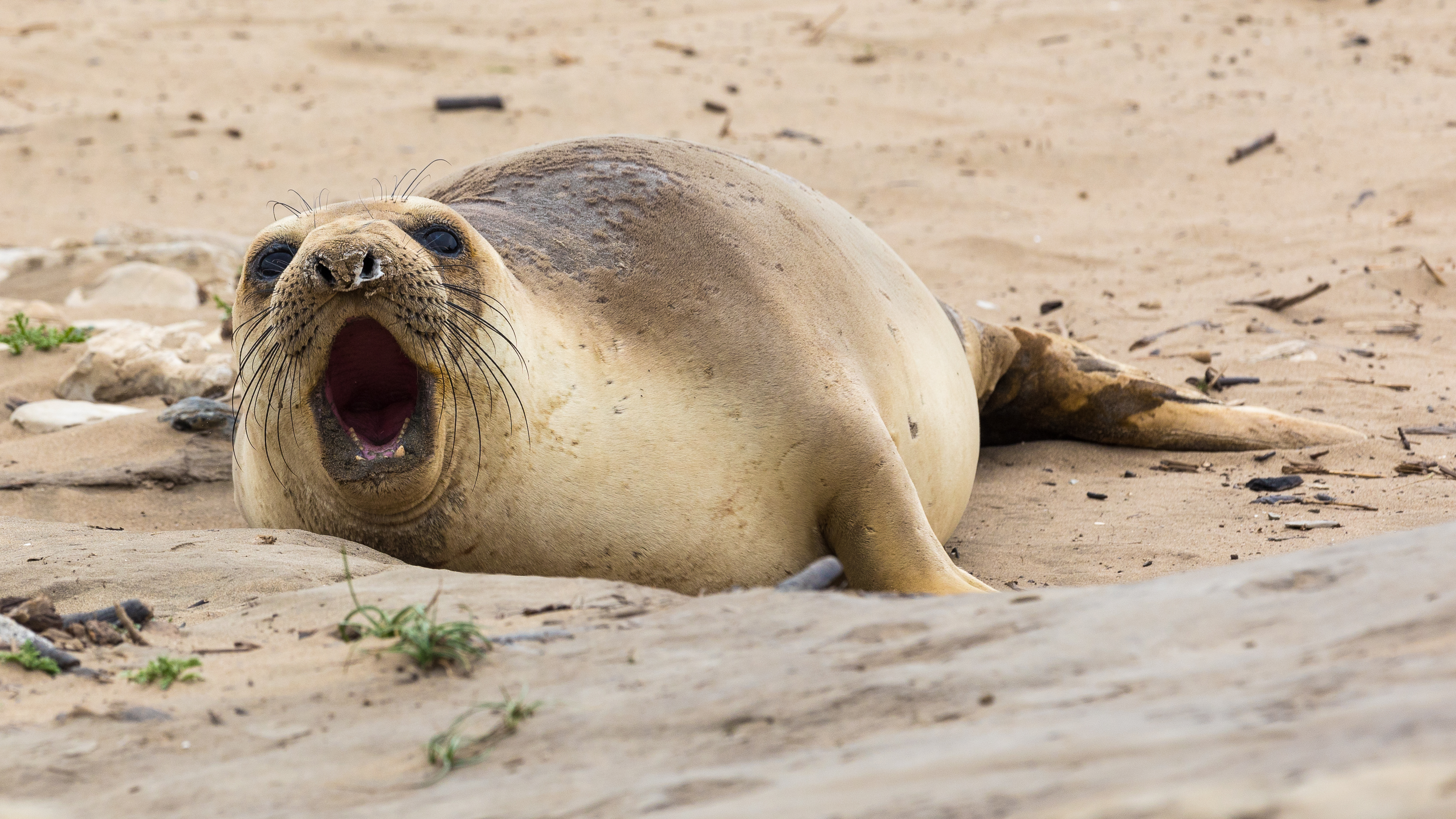 Northern elephant seal ♀ (Mirounga angustirostris) during molting season in Año Nuevo State Park, San Mateo County, California